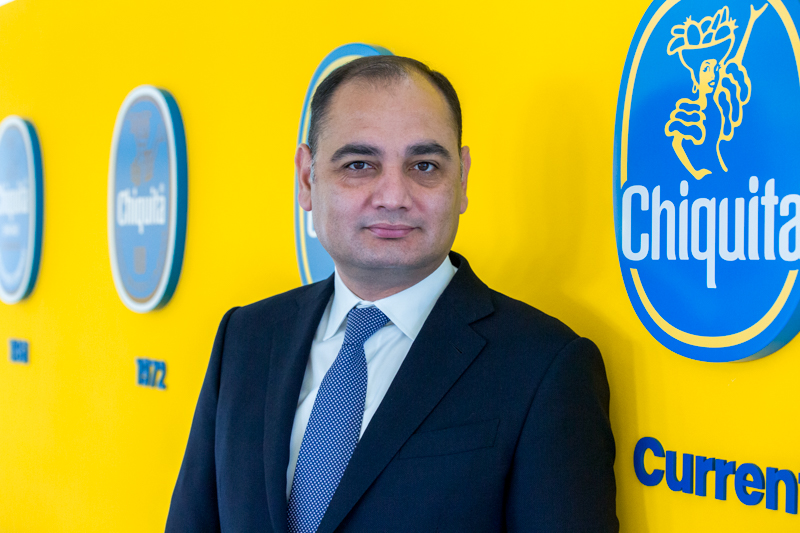 Carlos López Flores, President of Chiquita Brands International, in Front of Chiquita Logo